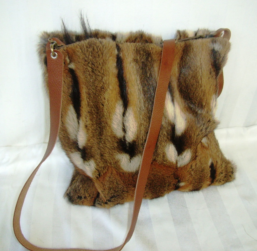 Hamster fur bag